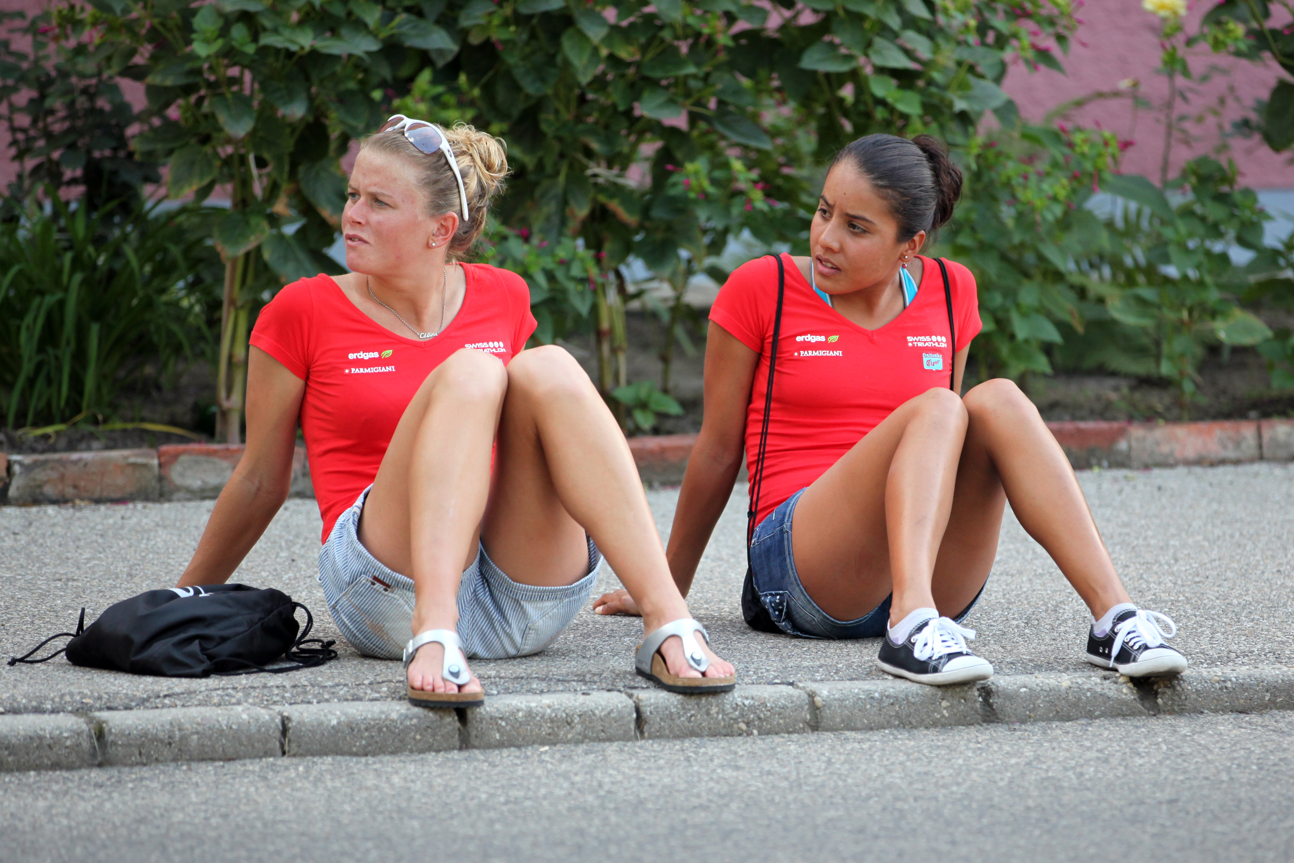 Ruth Nivon-Machoud (right) and Celine Schärer (left) at the World Cup triathlon in Tiszaújváros.